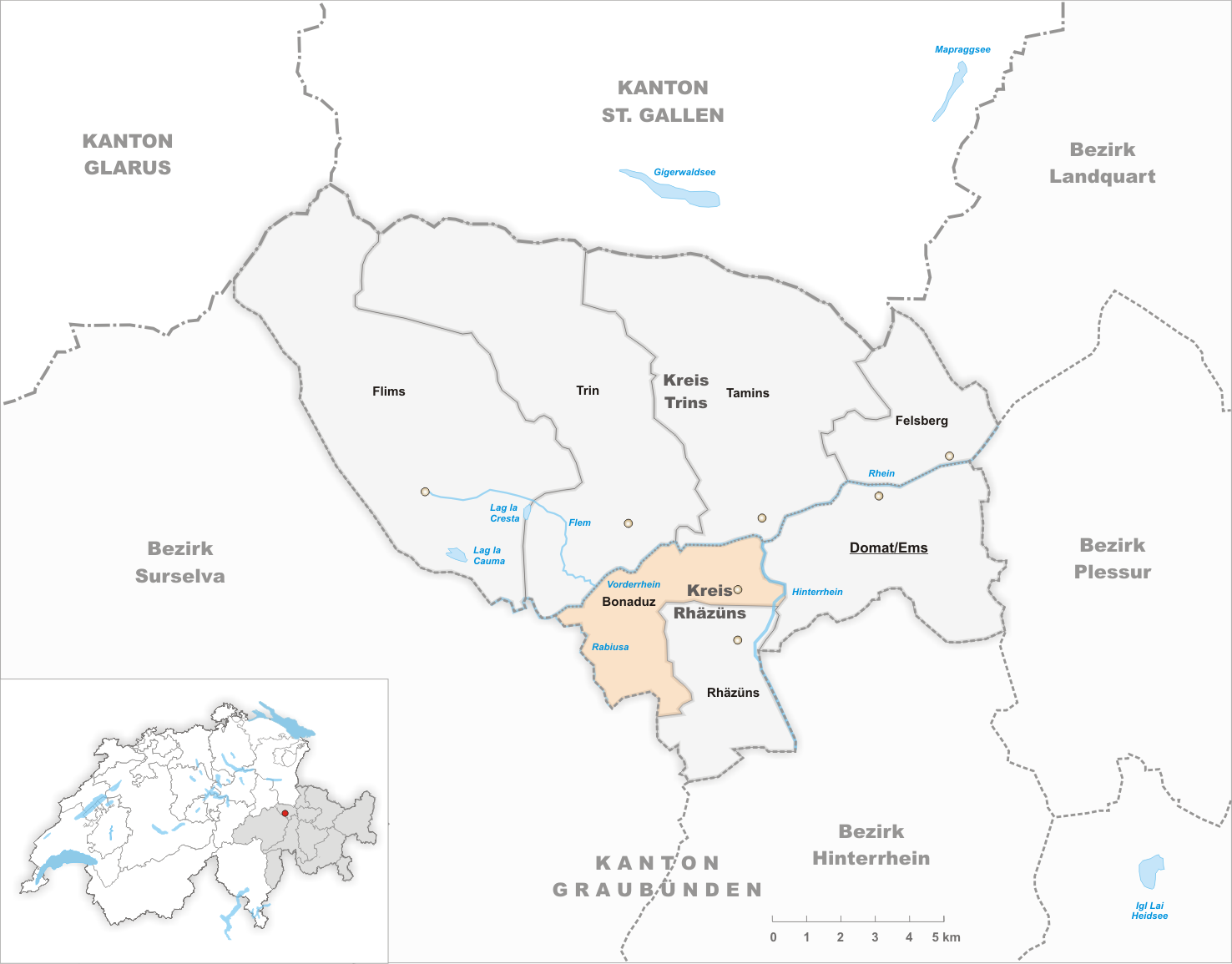 Municipality Bonaduz